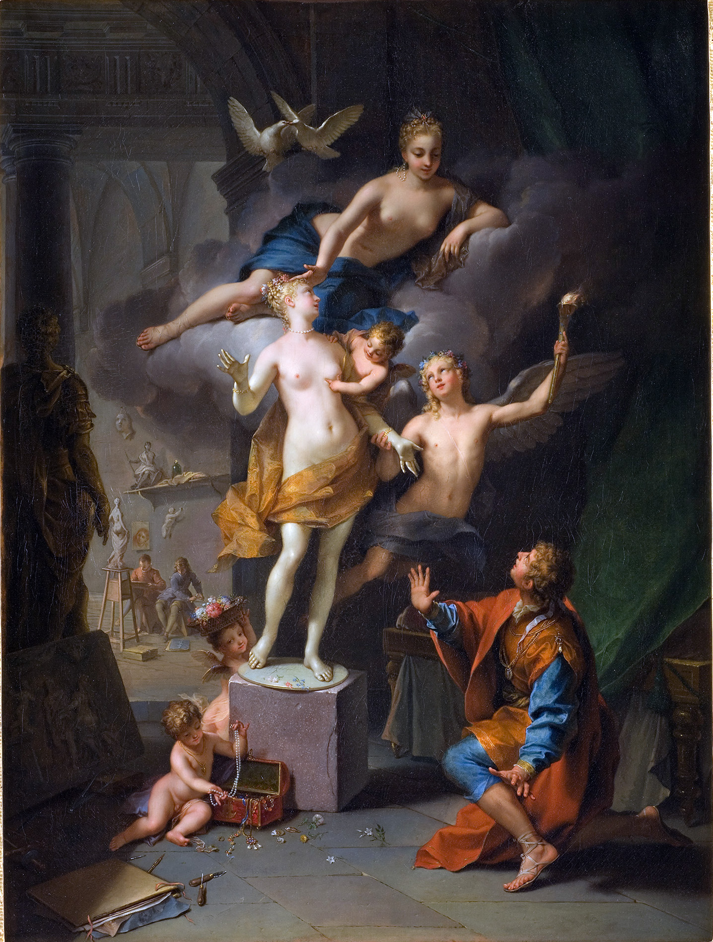 Painted after his return to France. Pygmalion was suspicious of women, and remained unmarried. He made a statue and fell in love with it. He begs Venus to bring his ivory creation into life. Galatea later becomes Pygmalion's wife.